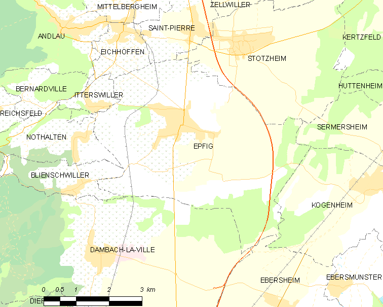 Map of French municipality